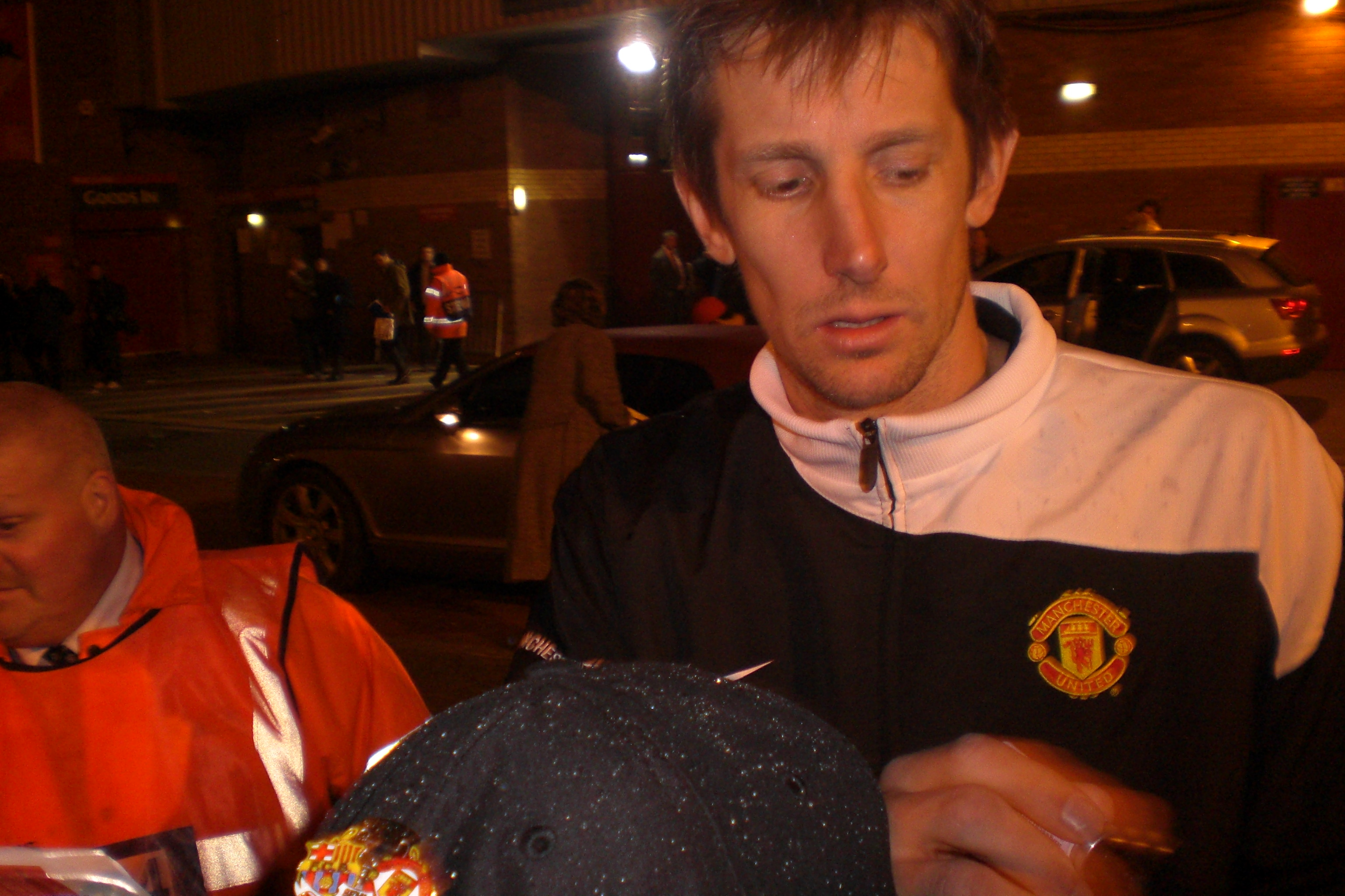 Edwin van der Saar, after Barca-match (1-0) 29th of april 2008